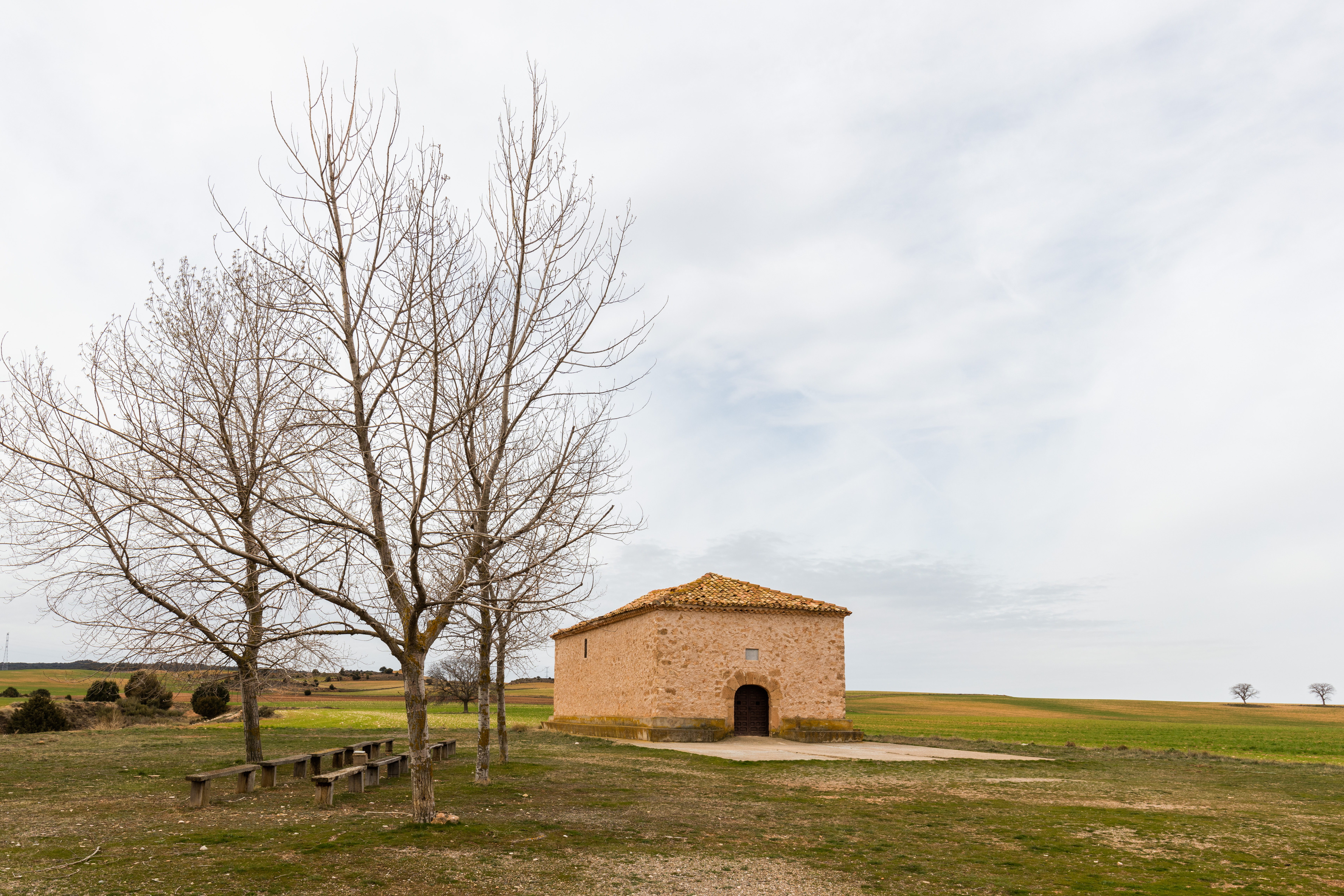 Hermitage of San Pascual, Alconchel de Ariza, Zaragoza, Spain